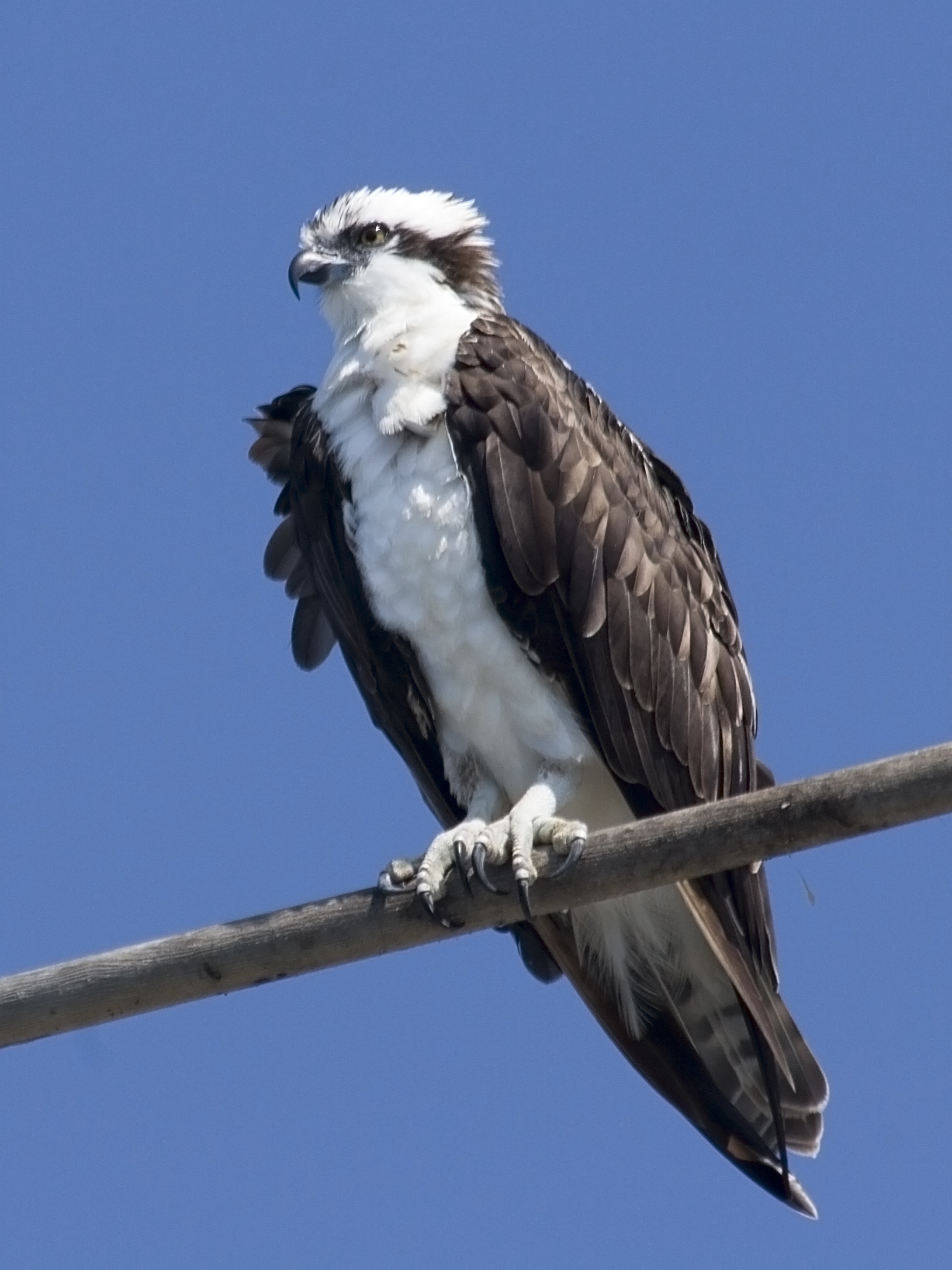 Osprey Pandion haliaetus, Morro Bay, California, USA.